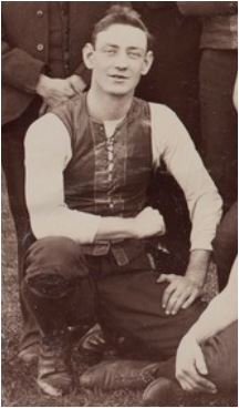 Photo of Ned Sutton taken in 1895